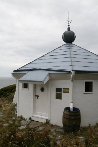 "The Lighthouse at the End of the World", Argentina